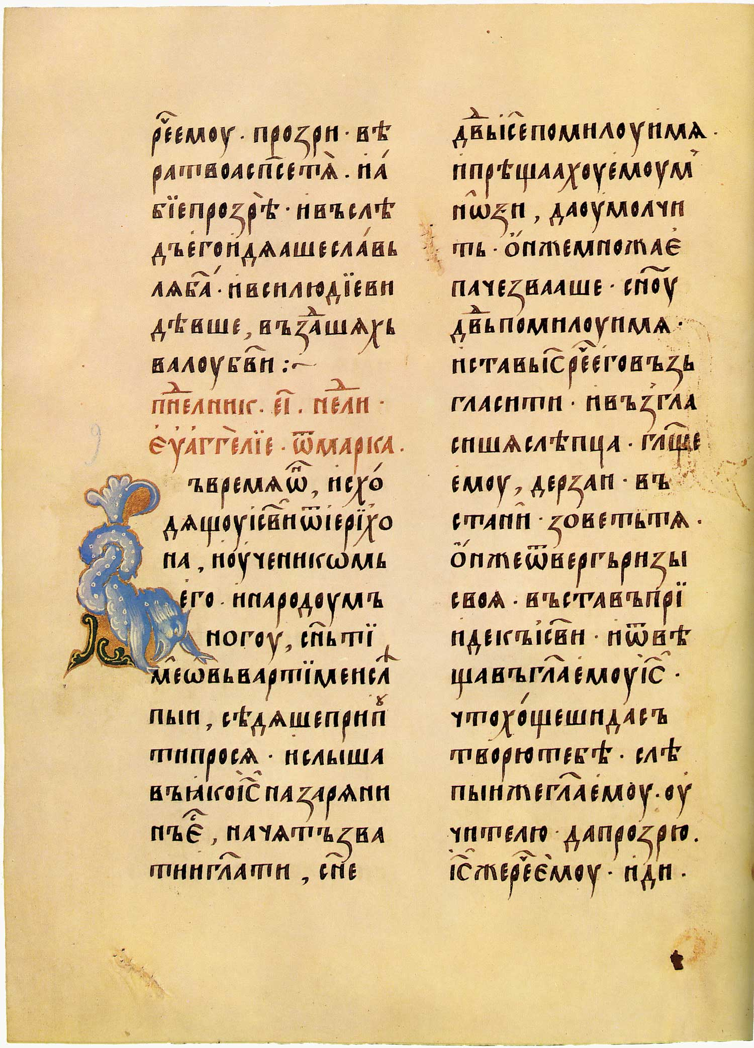 Andronikovo Gospel. Old Church Slavonic New Testament mamuscript. rus. "Aprakos". Store at State Historical Museum of Russia (Eparch. 436)